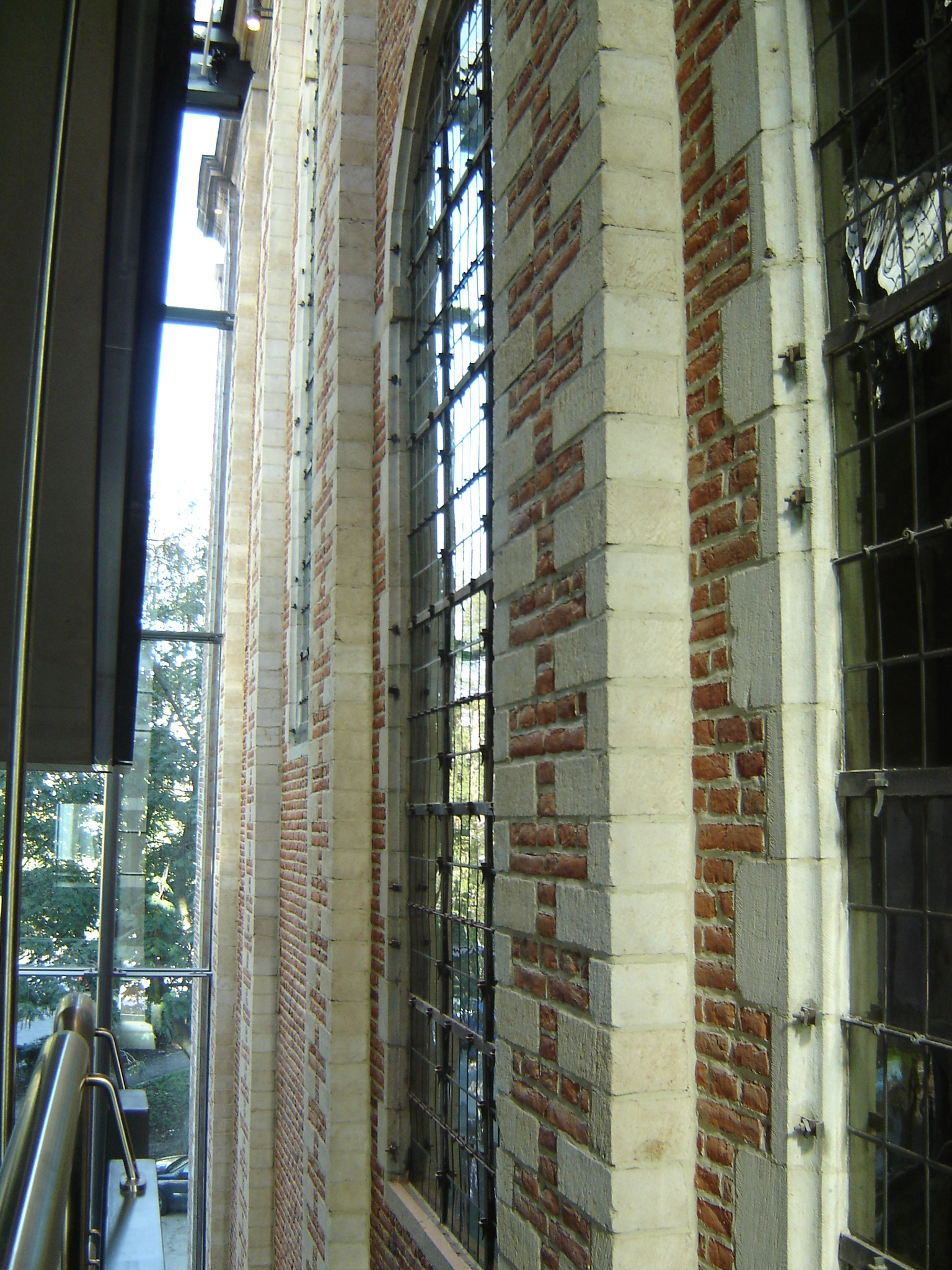 Les Brigittines Theatre, Brussels, Belgium